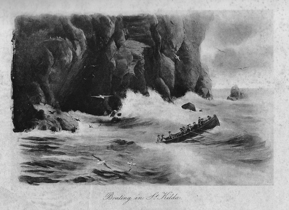 A photogravure illustration from Norman Heathcote’s 1900 book St Kilda chapter "Boating in St Kilda" entitled Boating in St Kilda.